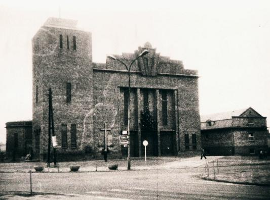 Poznan - Trojcy Church (Debiec).